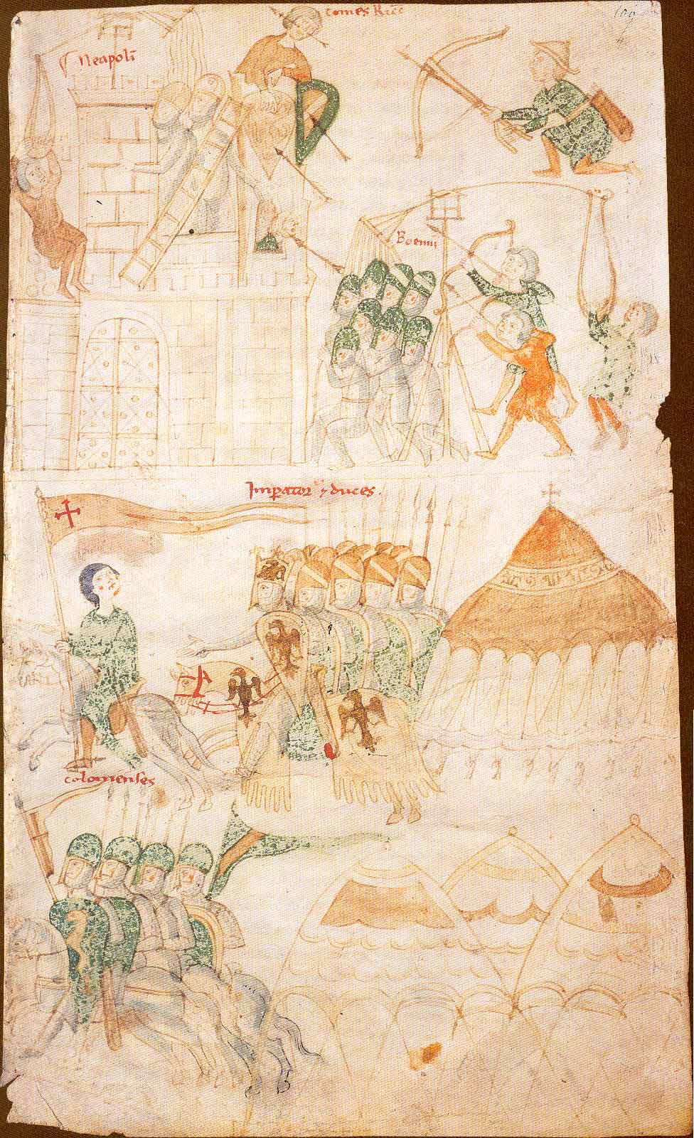 Folio 109r of Liber ad honorem Augusti